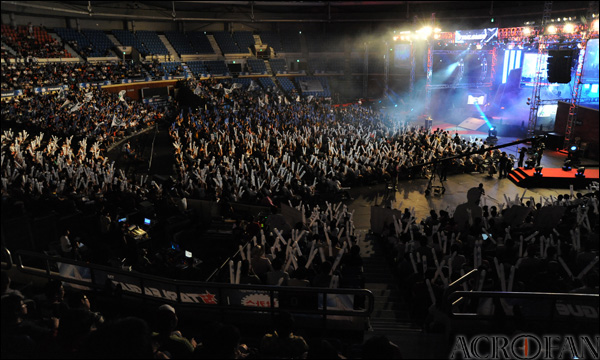 Ongamenet 2009 Bacchus Starleague final